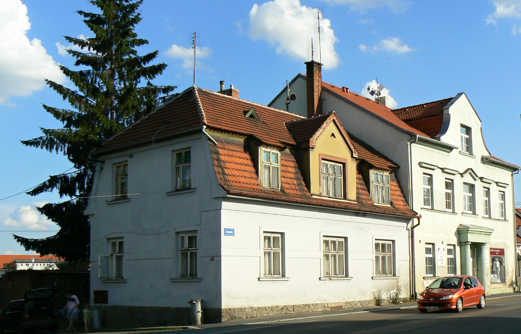 Town Stod in Plzeň-South District